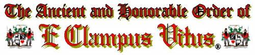 Artwork showing the name of our ancient and honorable organization with our "Coat of arms" logo on each side.